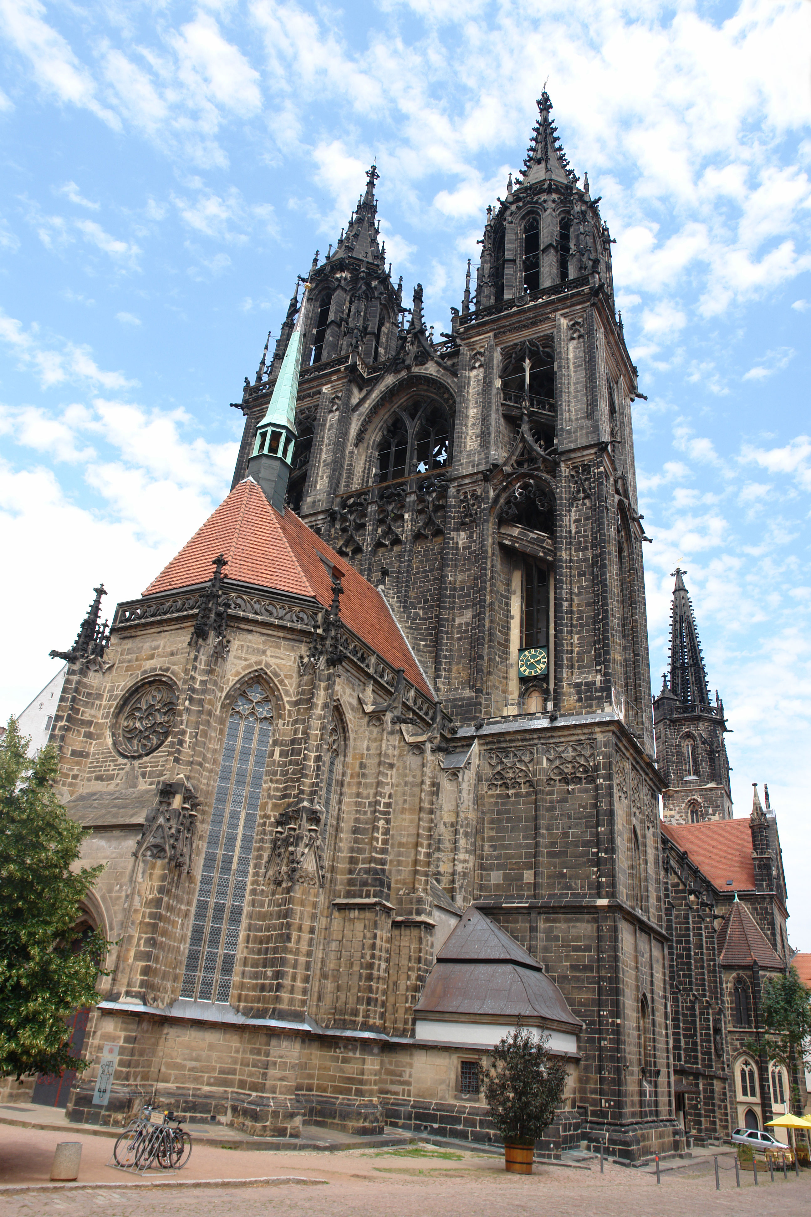 Meissen Cathedral (protestant), Germany